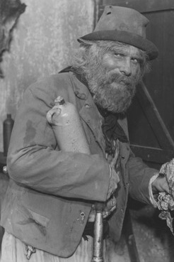 Fernando Vegal-actor argentino